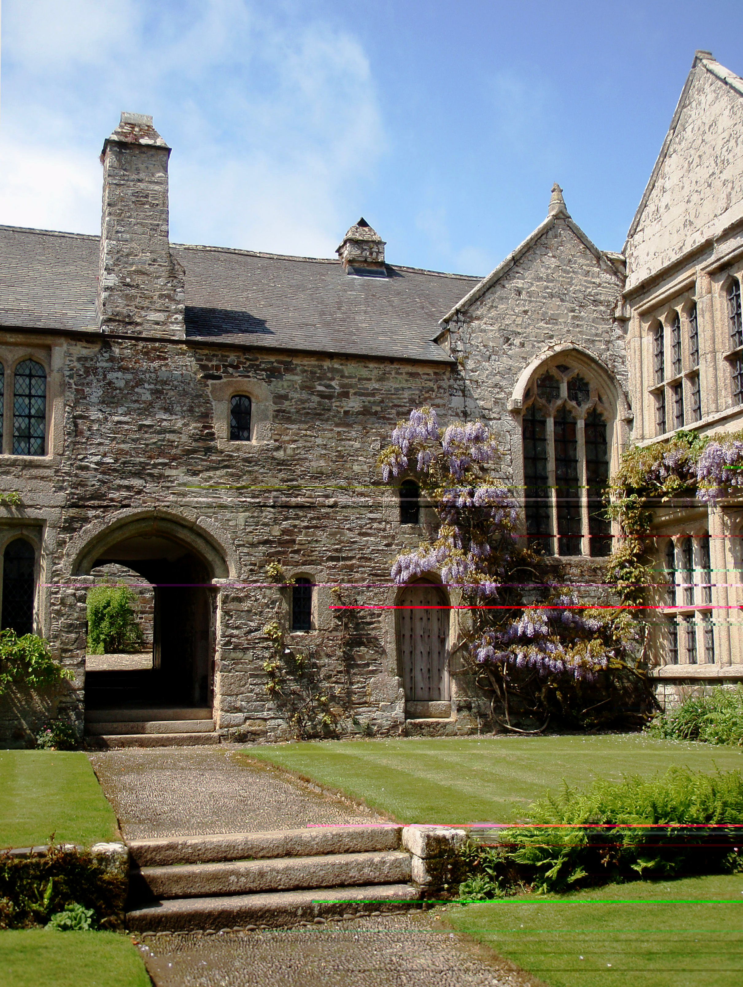 Cotehele Courtyard - Delicate Hues